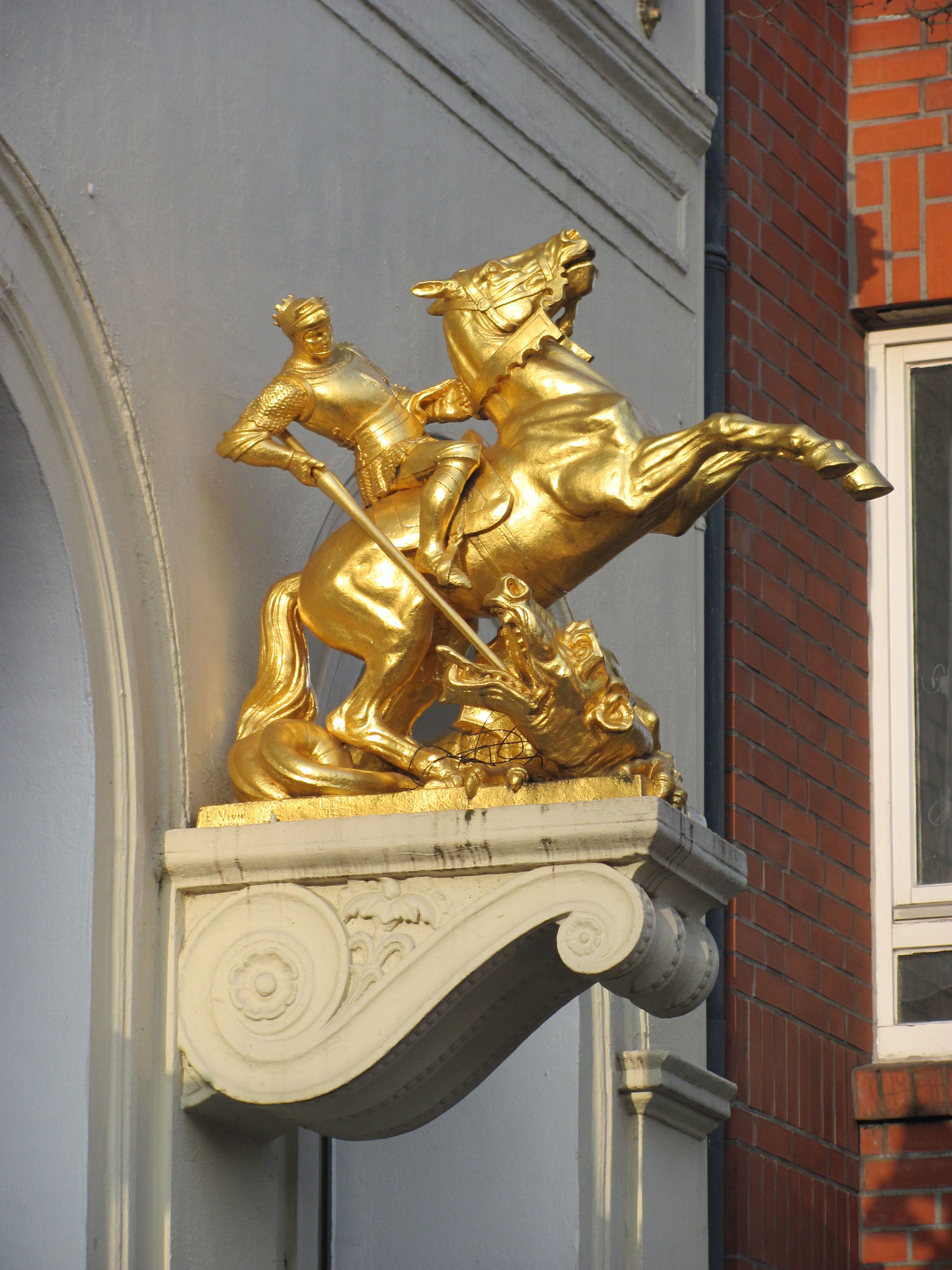 Saint George and the Dragon, Lange Reihe 39 in St. Georg, Hamburg, Germany, January 2011